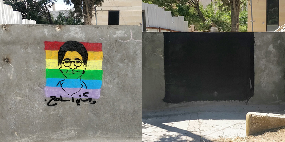 Side-by-side image of Amman mural of Sarah Hegazi before and after being painted over by Amman municipality